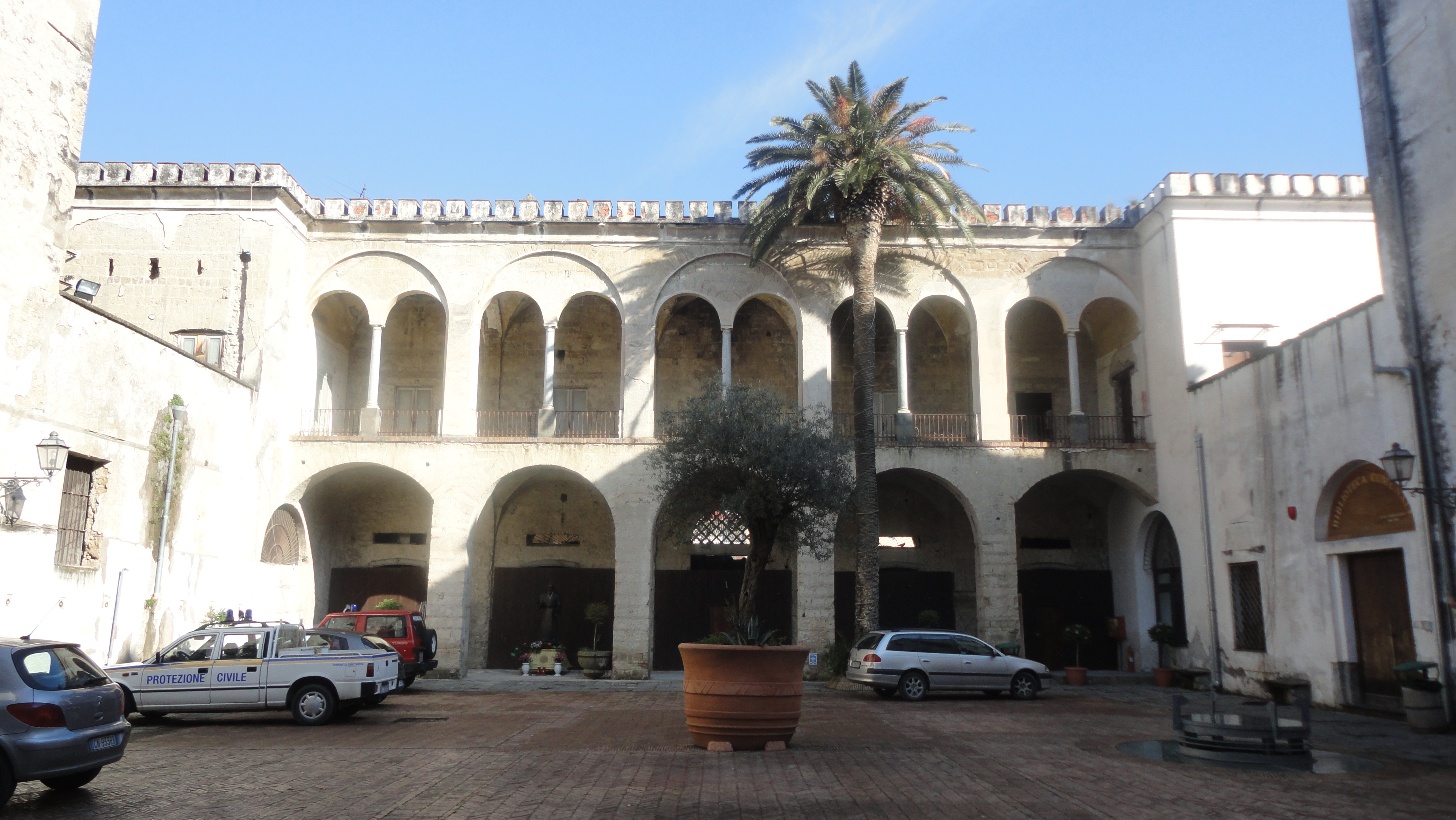 Sant'Arpino (CE, Italy), - Sanchez Mayor Palace - Atrium #1